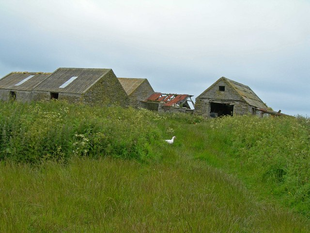 Quholm farmhouse, Shapinsay, Orkney Islands This farm was the birthplace of the father of Washington Irving.